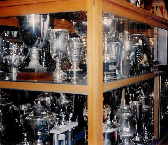 Trophy room at Ibrox Stadium